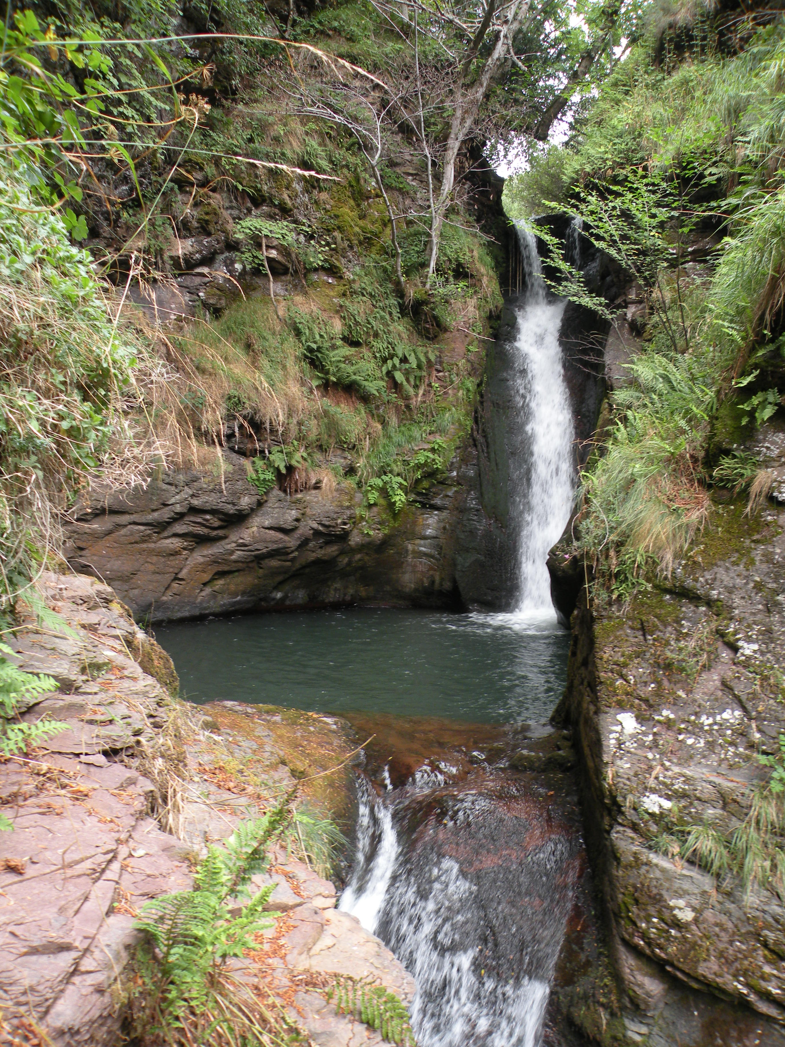 Stream pool of La Ureña. Guares River, Cantabria, Spain.